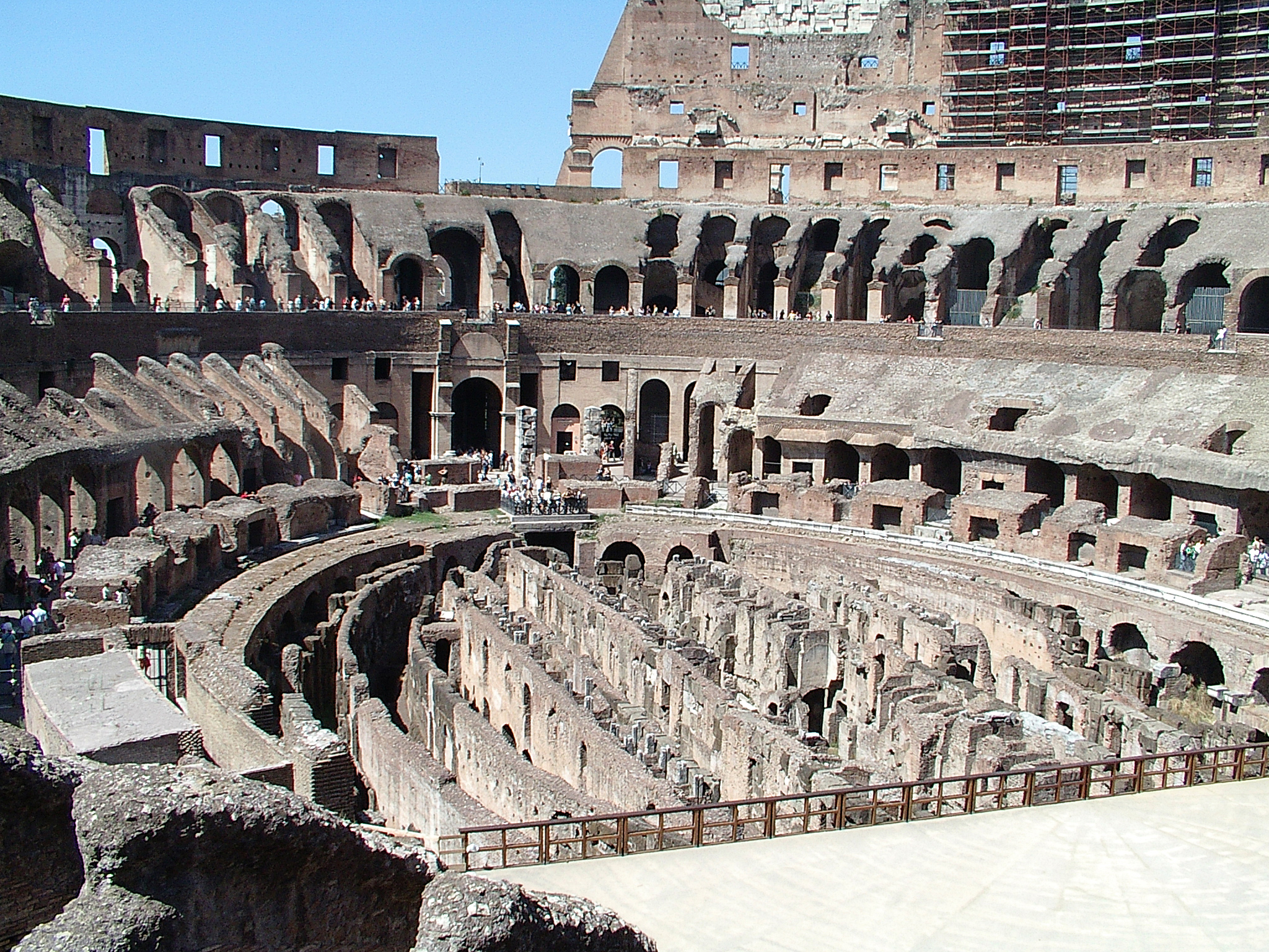 Inside Rome’s Colosseum visitors can view the chambers that once held animals and contenders below the arena floor.